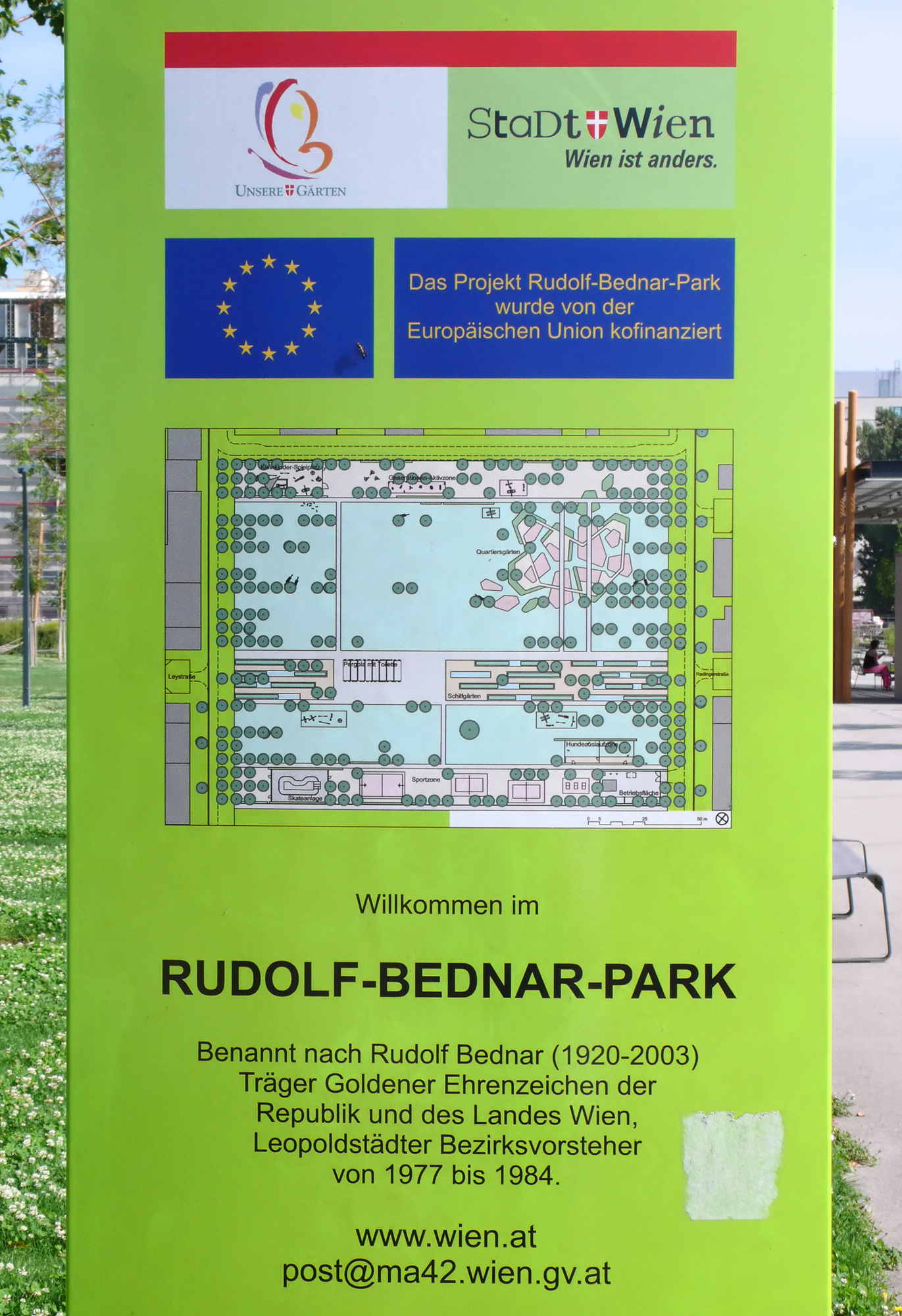 Rudolf-Bednar-Park in Vienna Leopoldstadt